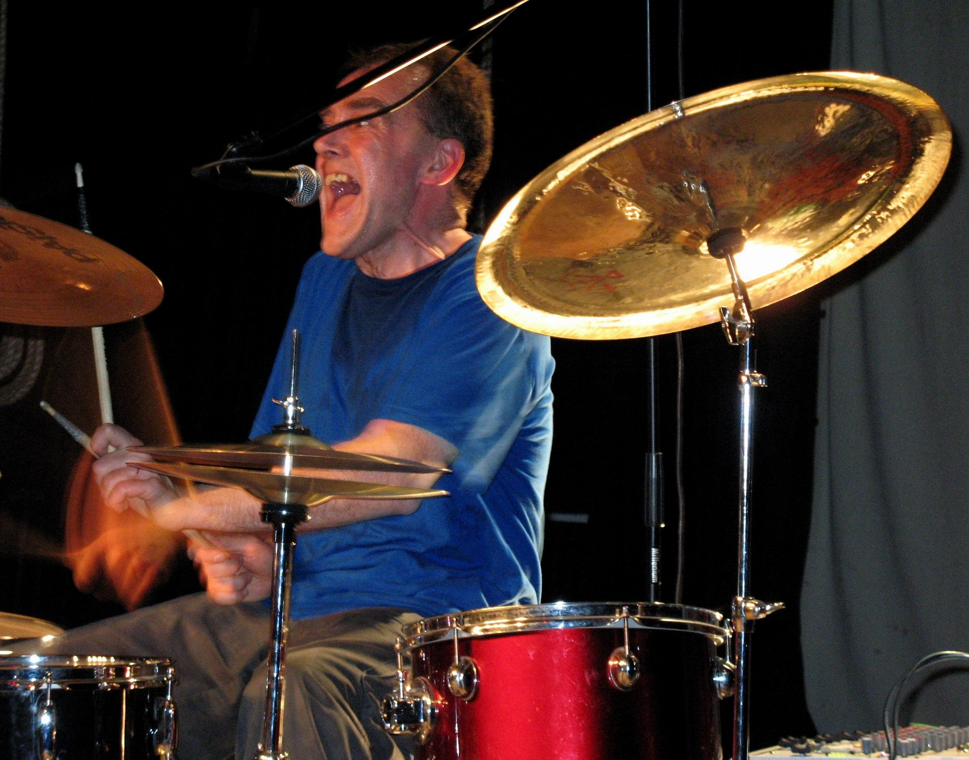 Charles Hayward performing in Limerick in Ireland on 2007-05-17.